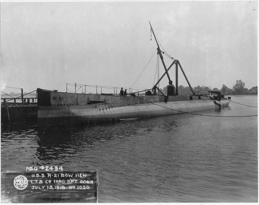 United States Navy submarine under construction at Lake Torpedo Boat Company at Bridgeport, Connecticut, five days after she was launched.